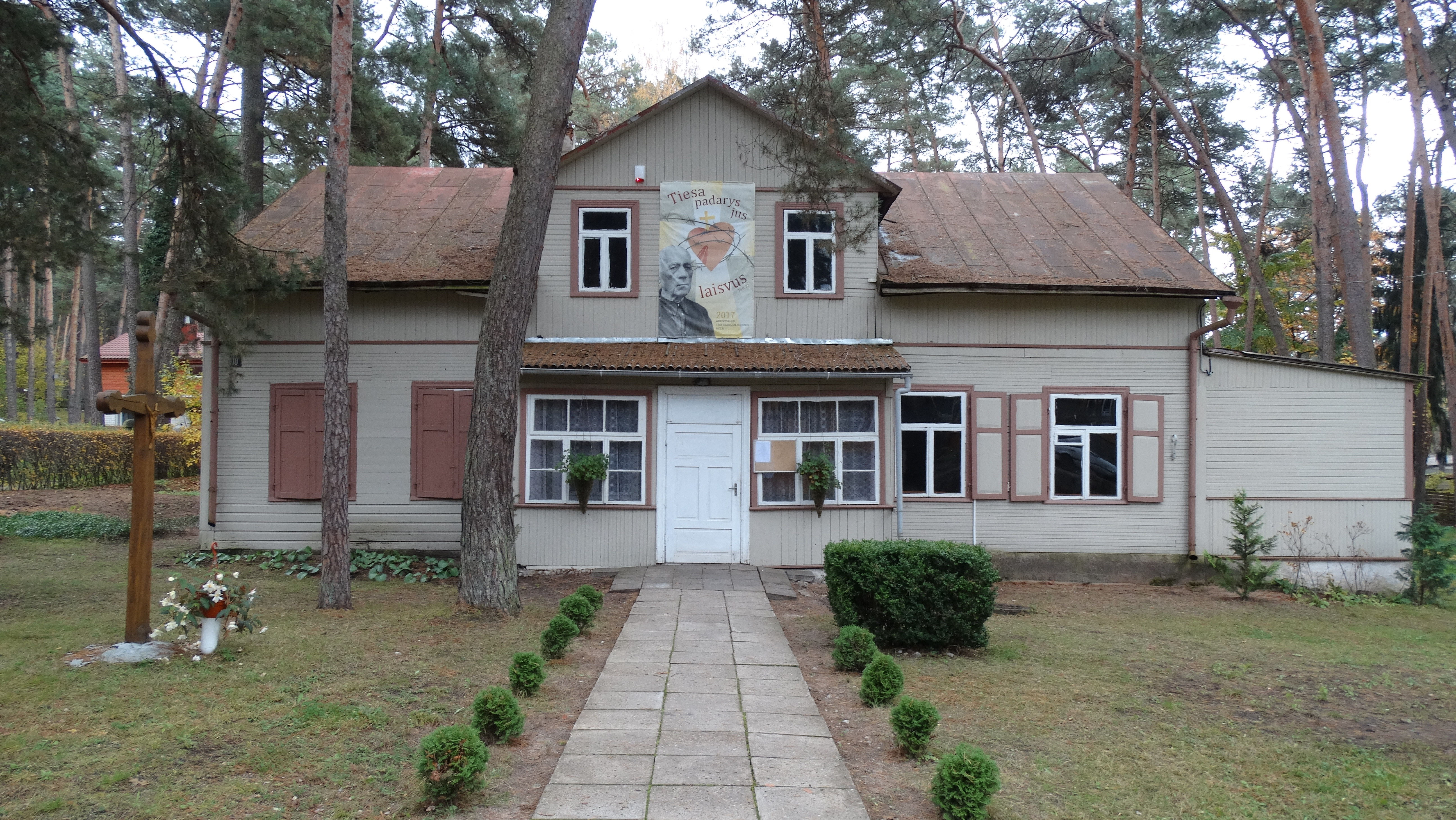 Temporary Church, Kulautuva, Kaunas District. Lithuania